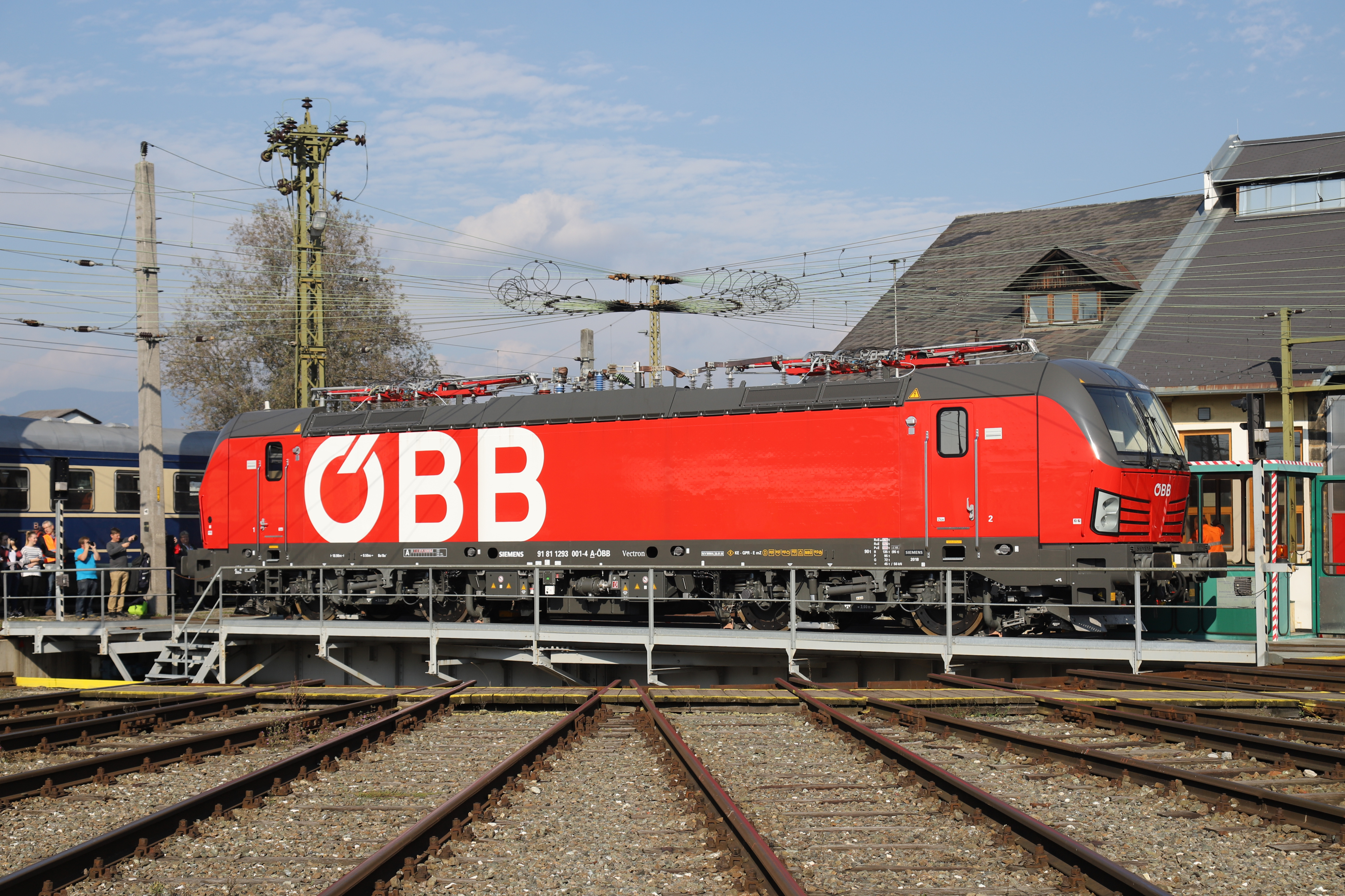 ÖBB 1293 001 on the turntable in Knittelfeld